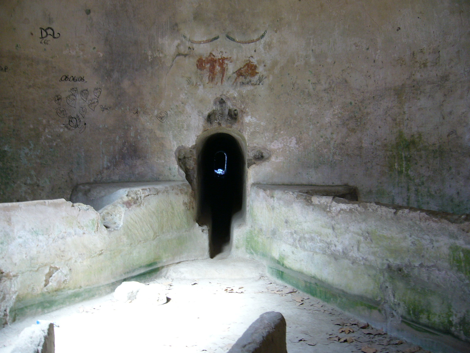 The interior of the castellum aquae in Pompeii. We are looking into the spur aqueduct off the Aqua Augusta. About 50 metres further on there is an access to the aqueduct—hence the light in the distance. The aqueduct is about 1.5 metres high so it is quite credible that Attilius and Corelia could have escaped through it as in Robert Harris' novel Pompeii.